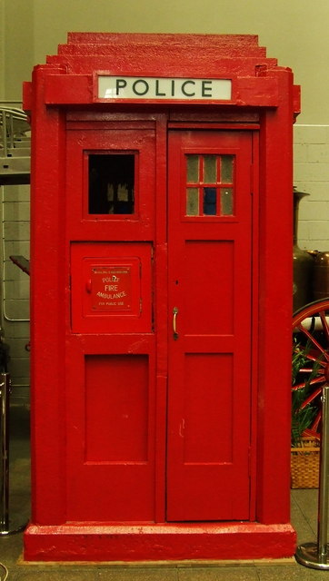 Police box Within Glasgow Museum of Transport.